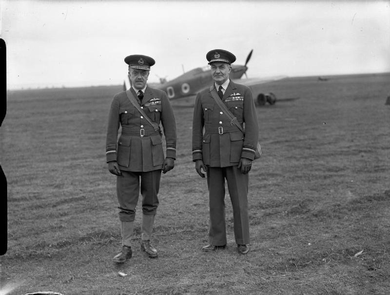 Air Officer Commander-in-Chief Air Marshal A S Barratt, Air Officer Commanding British Air Forces in France and Air Vice-Marshal P H L Playfair, Air Officer Commanding the Advanced Air Striking Force, photographed together for the first time while inspecting No. 73 Squadron RAF at Rouvres.